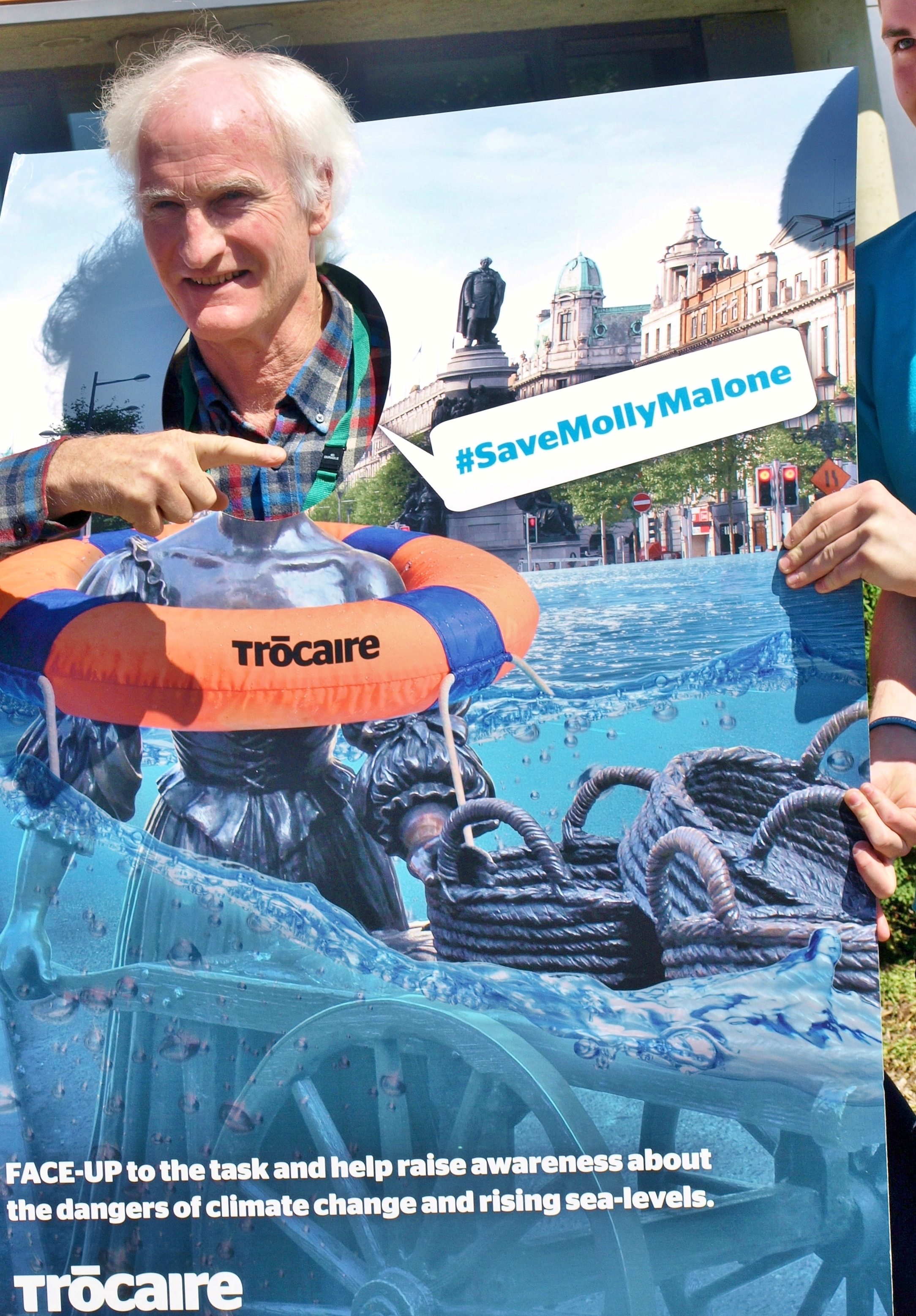 Duncan Stewart in a publicity stunt for Trócaire in 2015